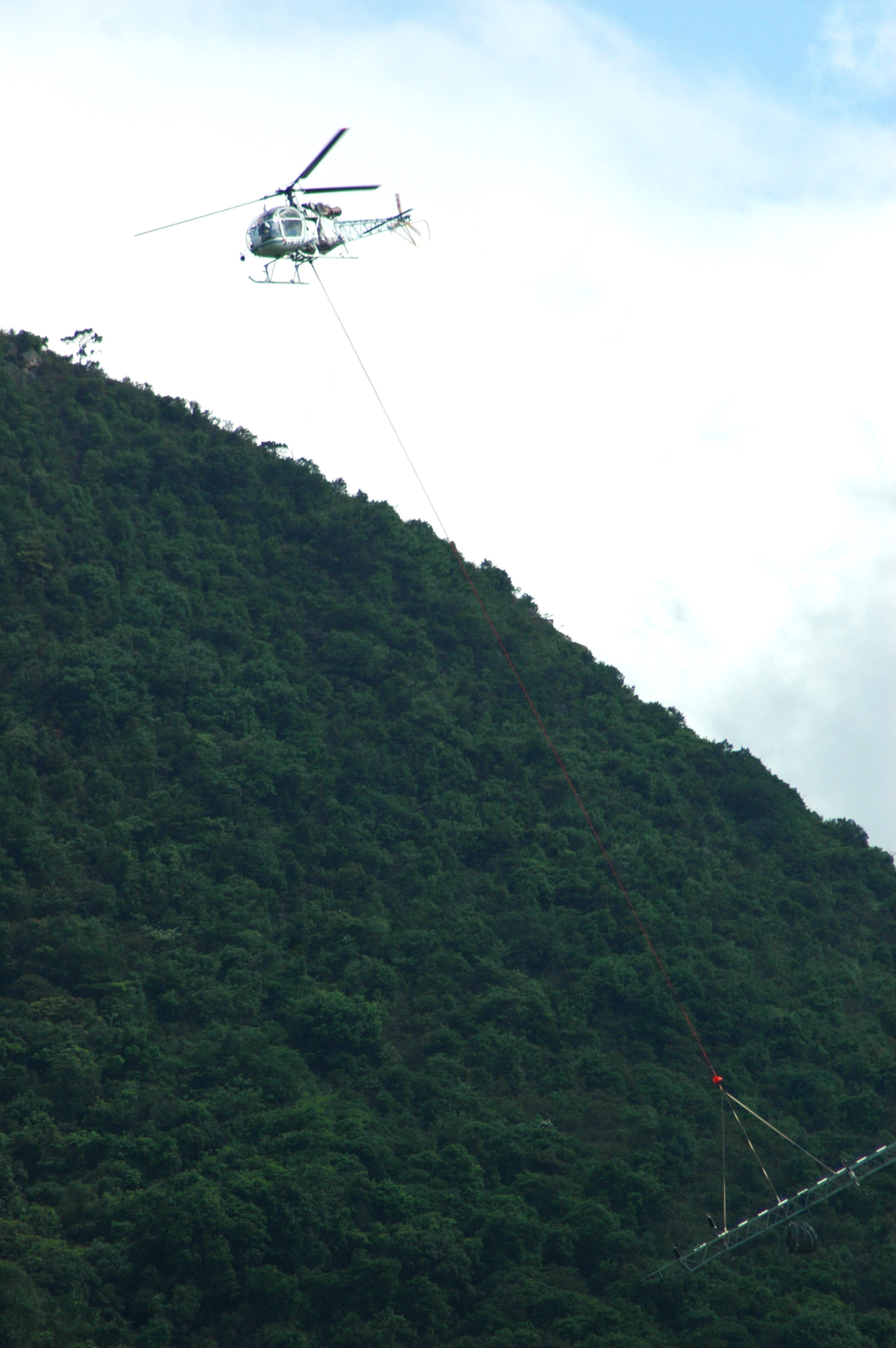 A Heliservices (Hong Kong) Aerospatiale SA315B LAMA B-HJV helicopter flying in Hong Kong.